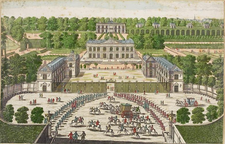 View of the Château de Marly from the entrance front